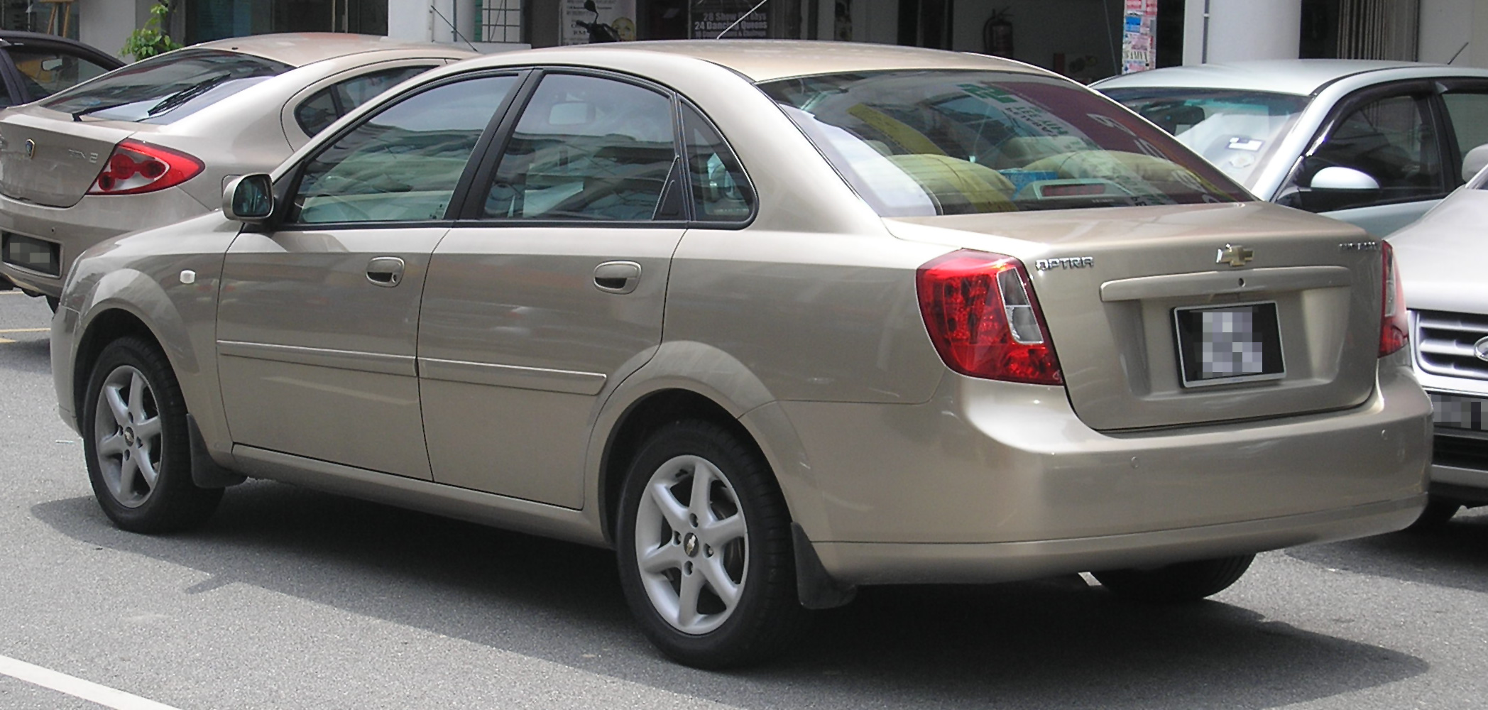 Rear-side shot of a first generation Chevrolet Optra (localised variant), in Serdang, Selangor, Malaysia.